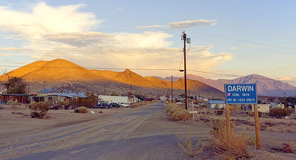 sunset in Darwin, CA